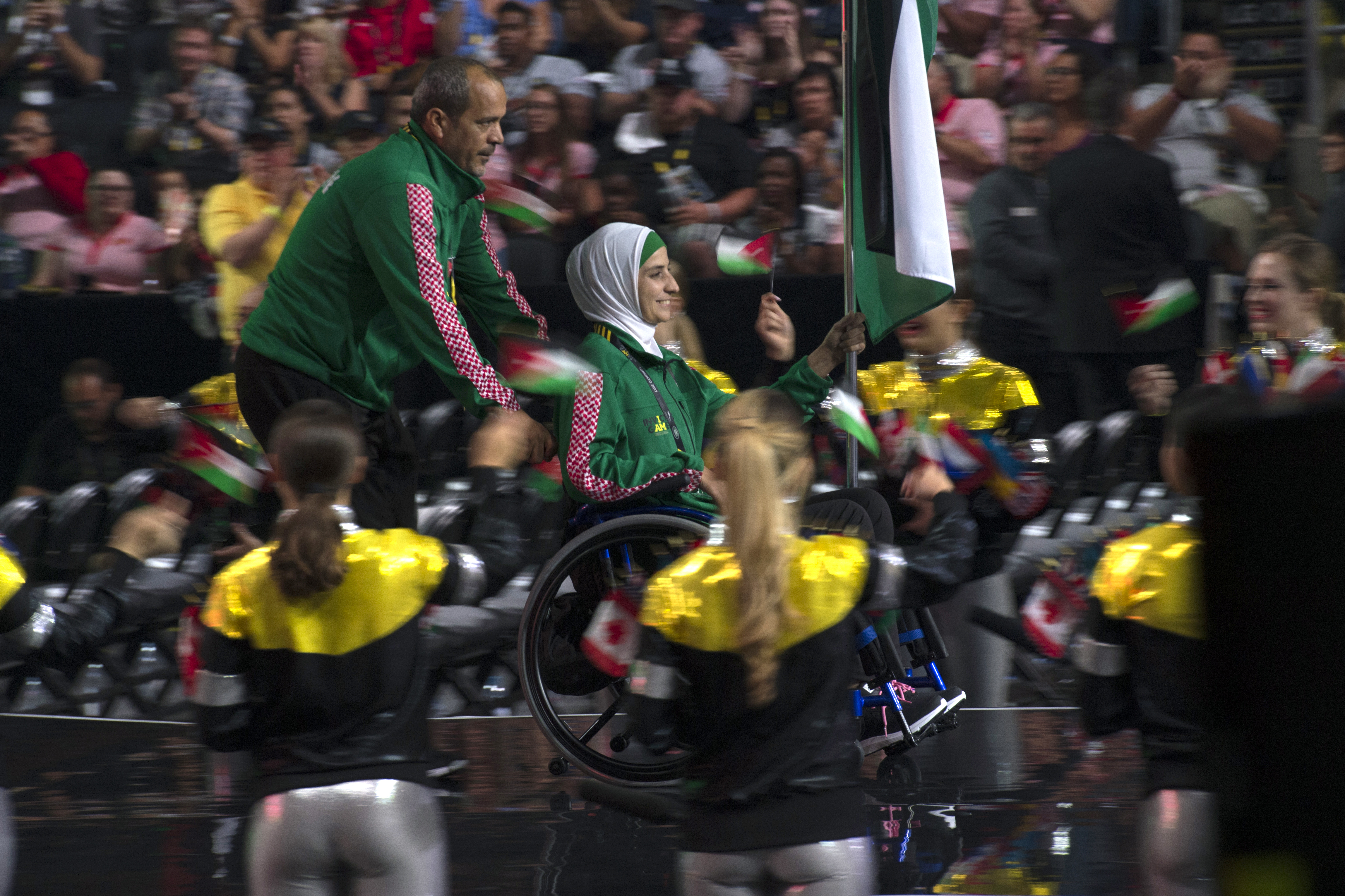 Team Jordan’s Amany Abdel Rahman carries the Jordan flag into the2017 Invictus Games opening ceremonies in Toronto, Canada Sept. 23, 2017. (DoD photo by EJ Hersom)